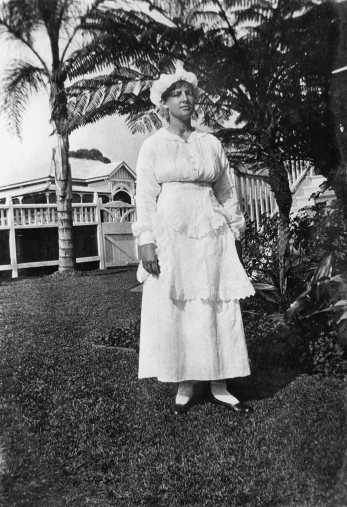 Hazel Campbell in Coo-ee Cafe uniform, 1917 Girl standing in the garden of The Brae. The comforts fund was established during World War I to supply those serving overseas with little extras from home.